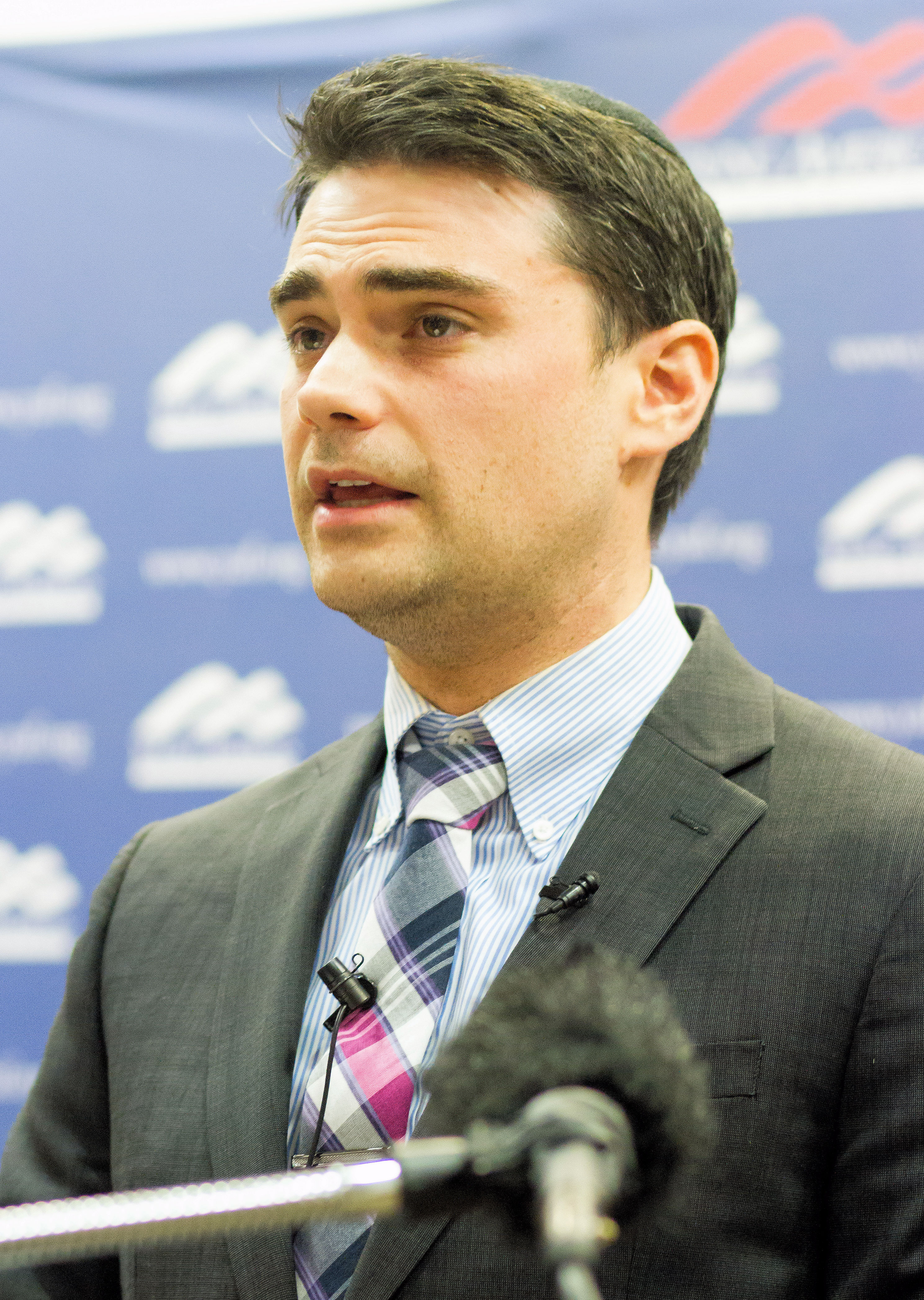 Ben Shapiro at Ellis Auditorium at event sponsored by MU College Republicans